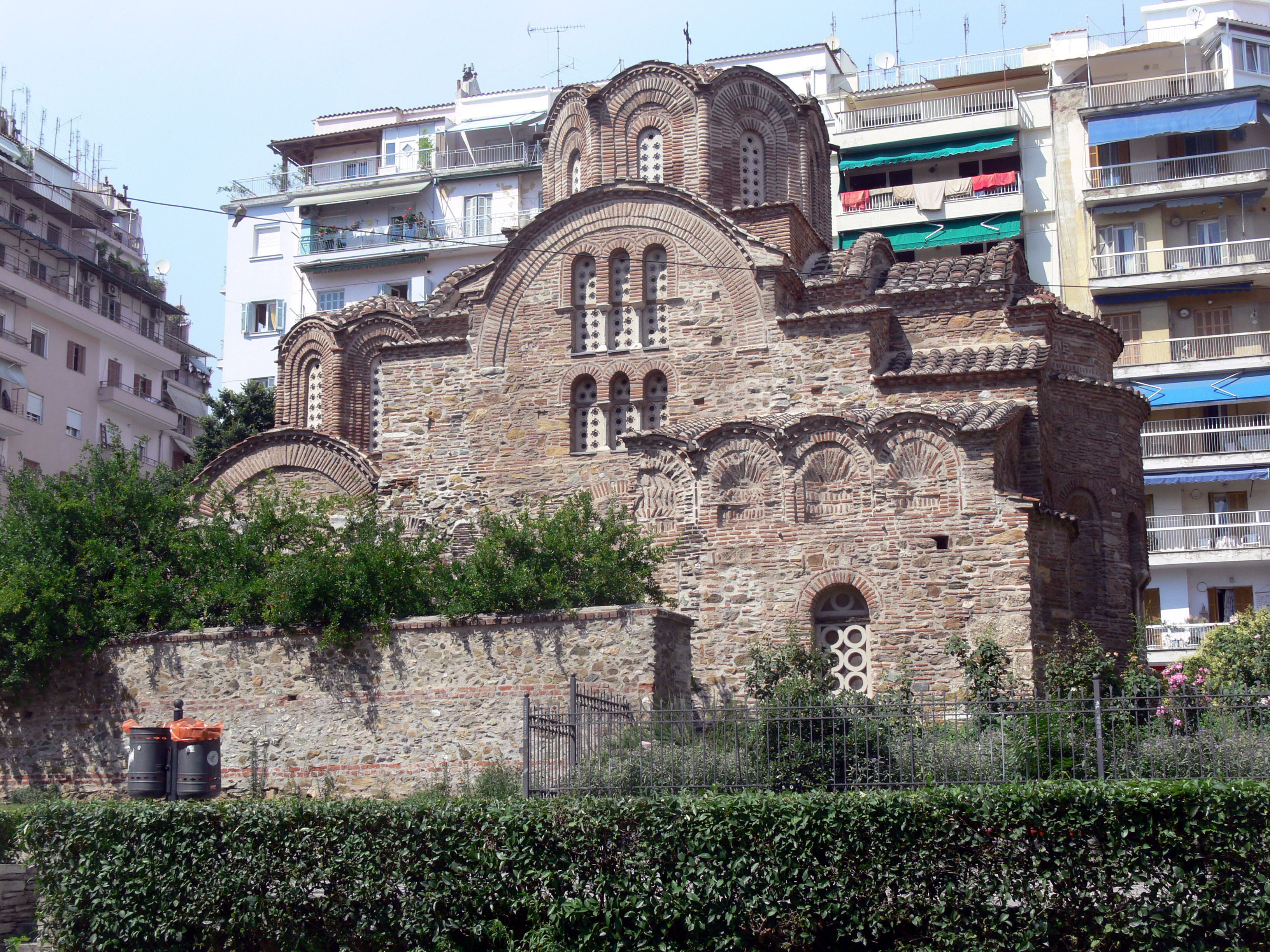 The Byzantine Church of Saint Panteleimon of the City, Thessaloniki